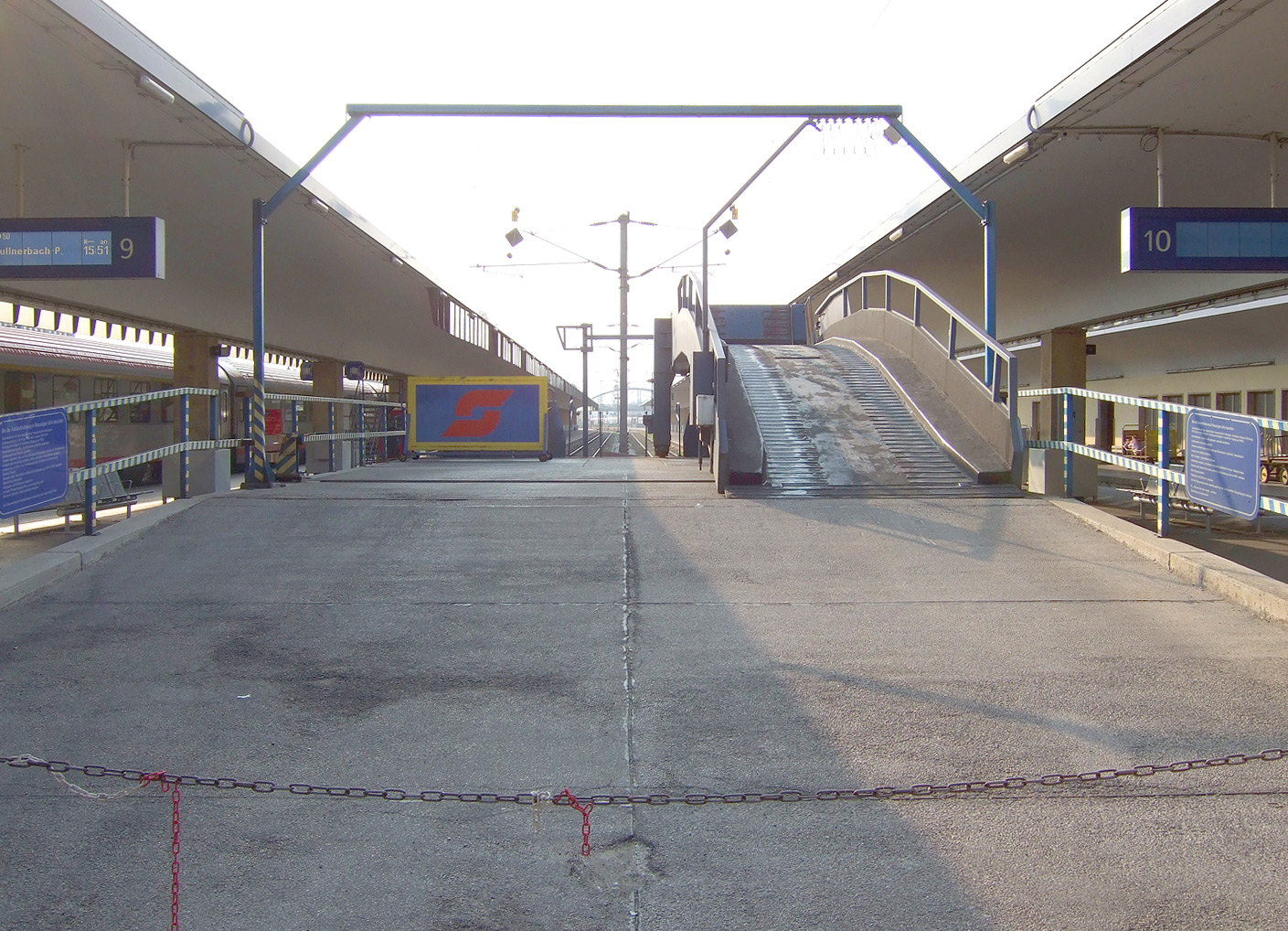 Wien Westbahnhof (western train station, Vienna); intermodal passenger transport (car/train)